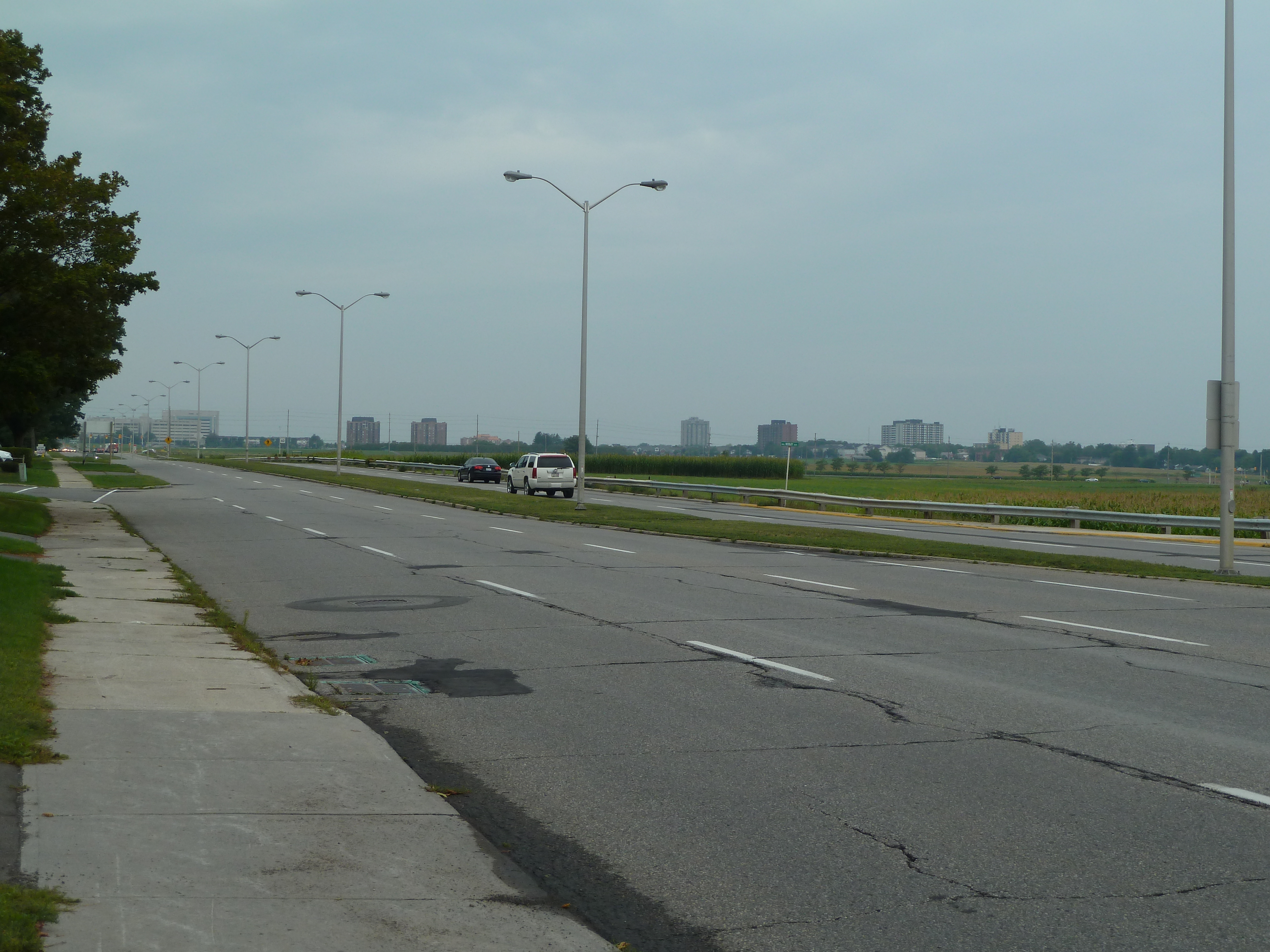 Baseline Road in Ottawa, Ontario, Canada, view over the Central Experimental Farm